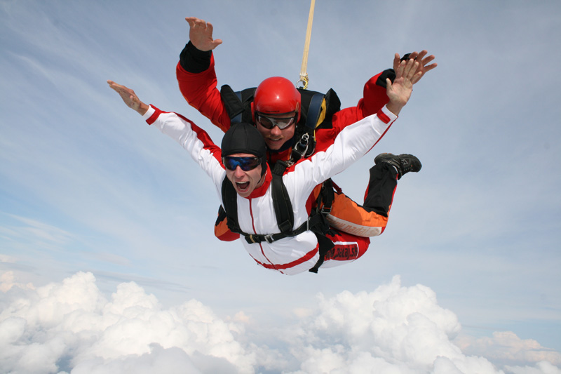 tandem jump